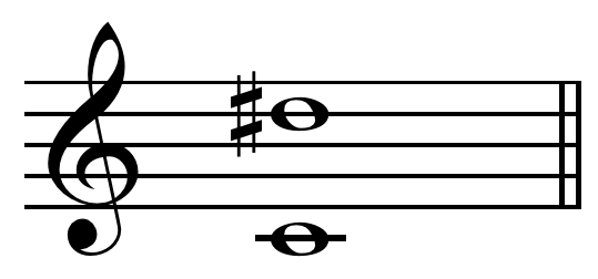 Augmented ninth on C = D♯'. Just: 75:32 = 1474.58 cents. Equal-tempered: 215/12:1 = 1500 cents.